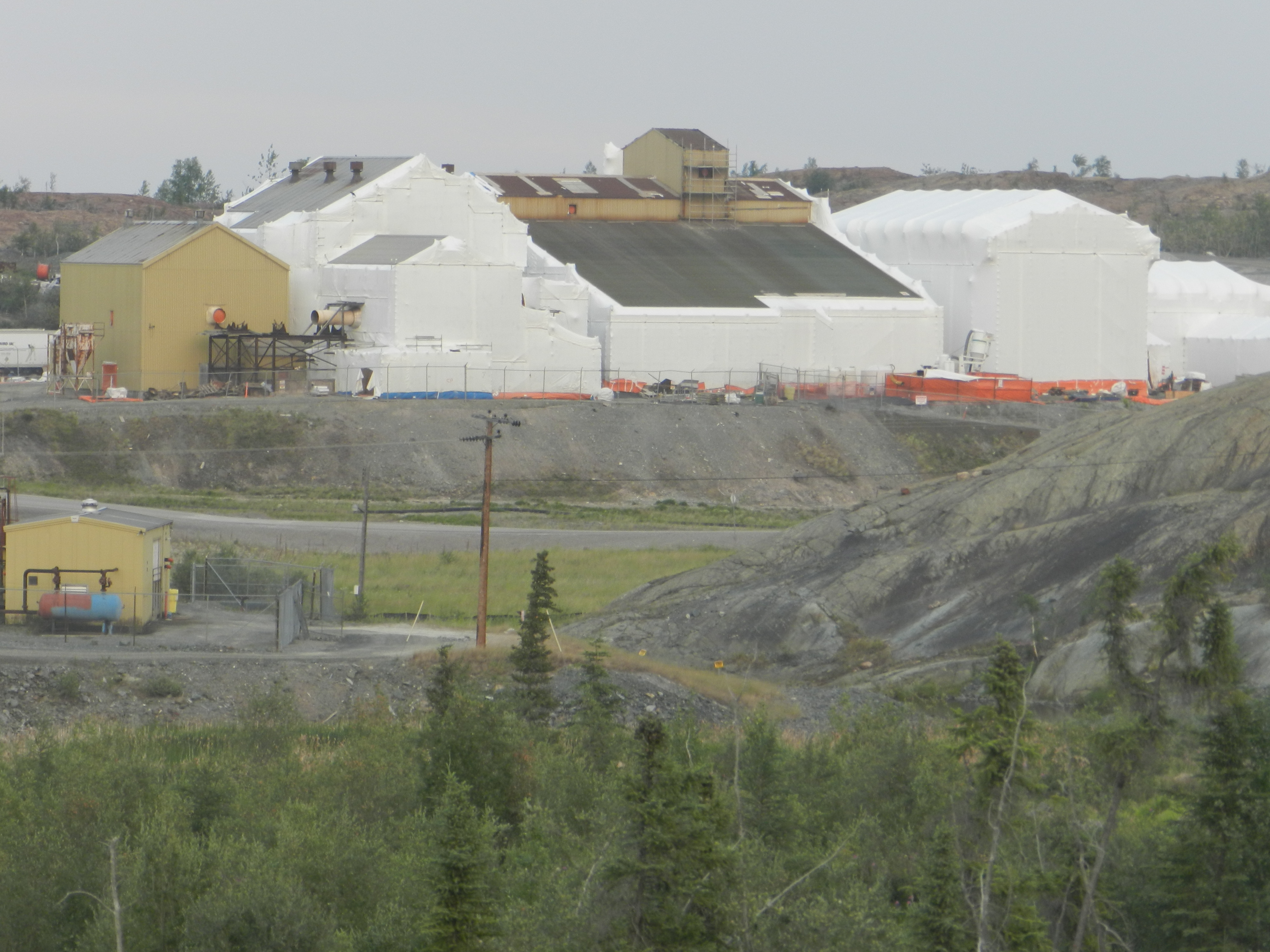 Buildings at Giant Mine. Undergoing remediation.